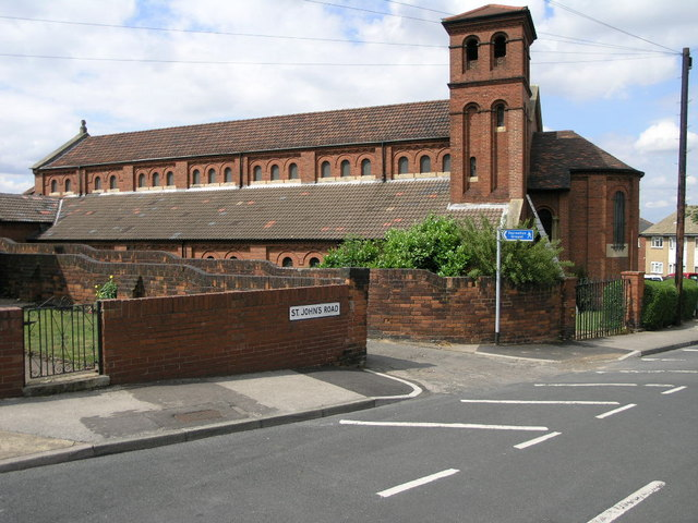 Parish church of St John the Baptist, St John's Road, New Edlington, South Yorkshire, seen from the south